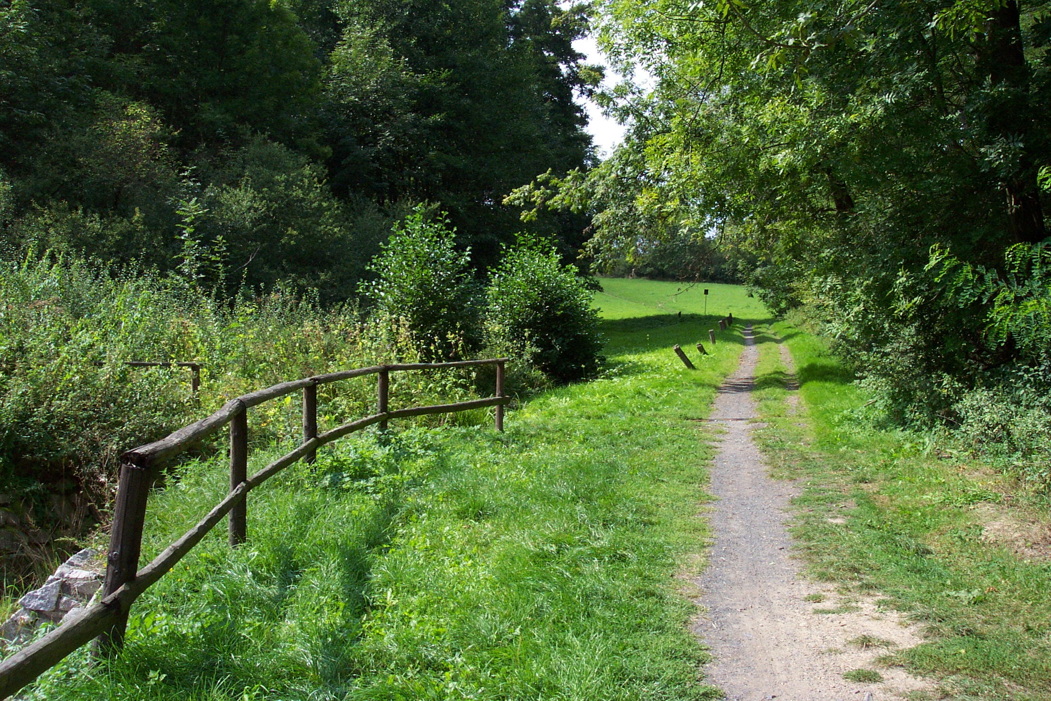 Nature in Divoká Šárka park, Prague, CZ